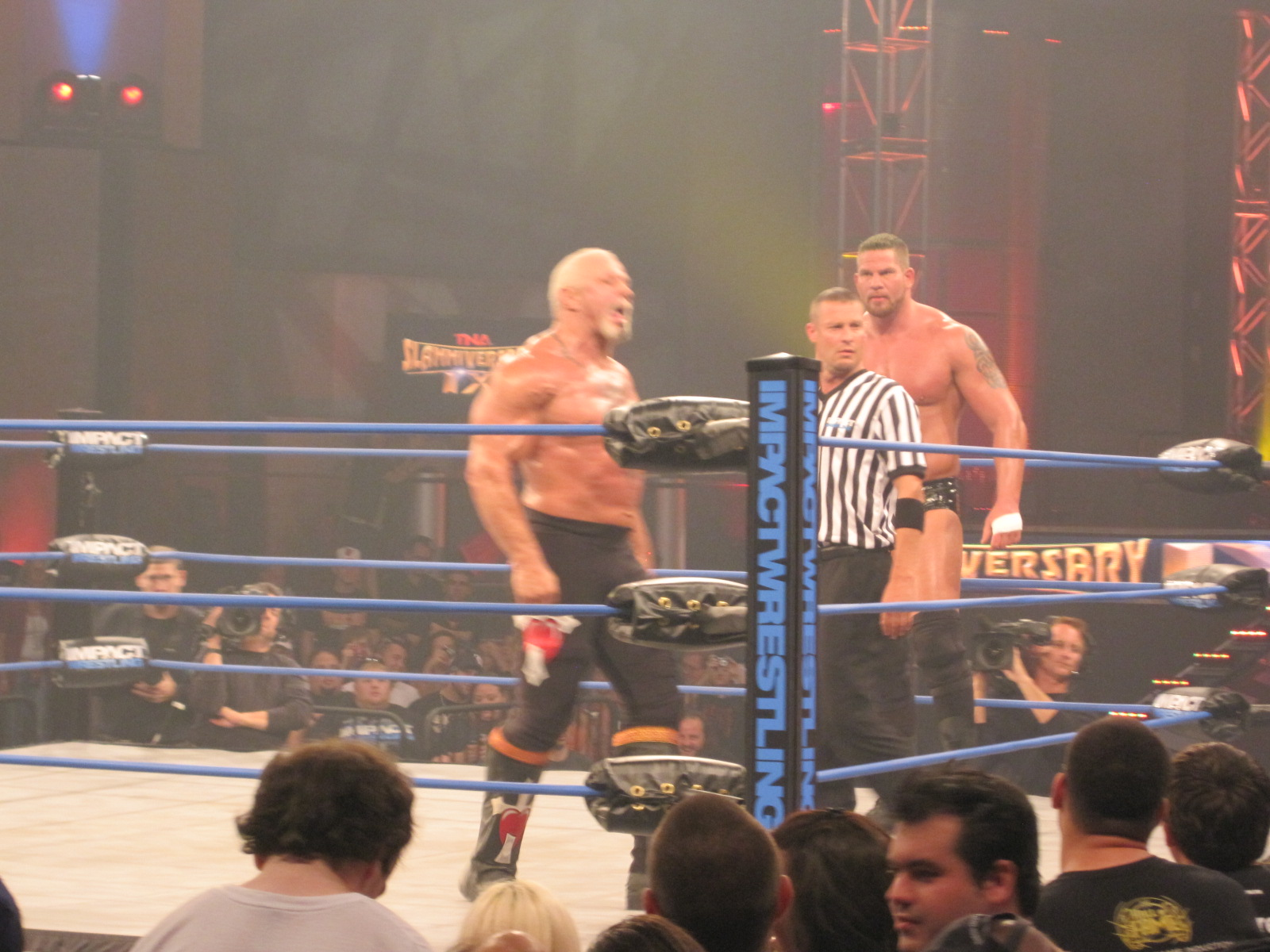 Sunday, June 12, 2011. Universal Orlando